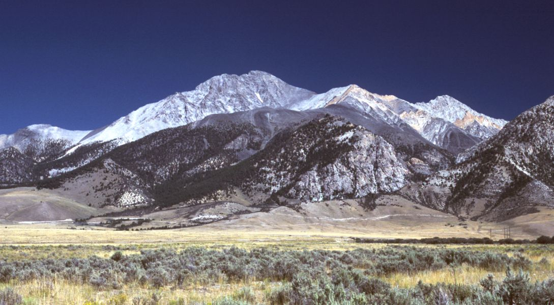 Borah Peak, Idaho, looking east. The normal climbing route begins in the wooded canyon at center left. The white line running along the base of the peak is the fault trace from the 1983 earthquake.